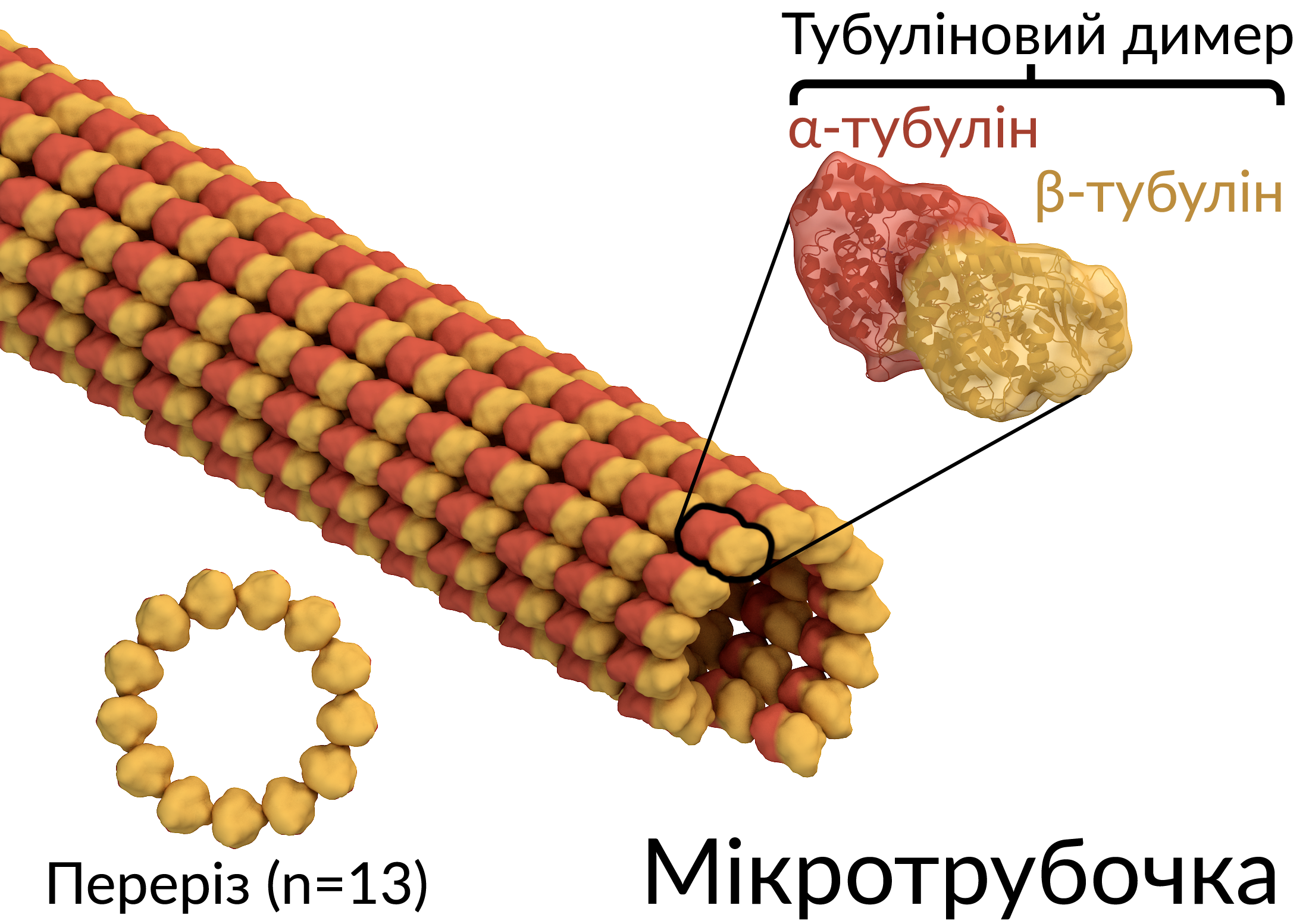 Microtubule structure, translation into Ukrainan of the File:Microtubule structure.png